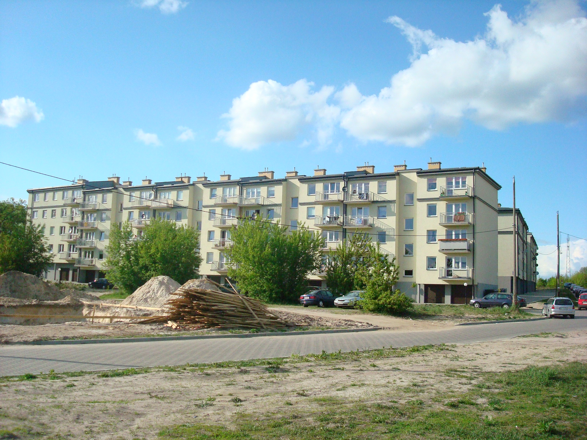 Housing estate of brill in Siedlce